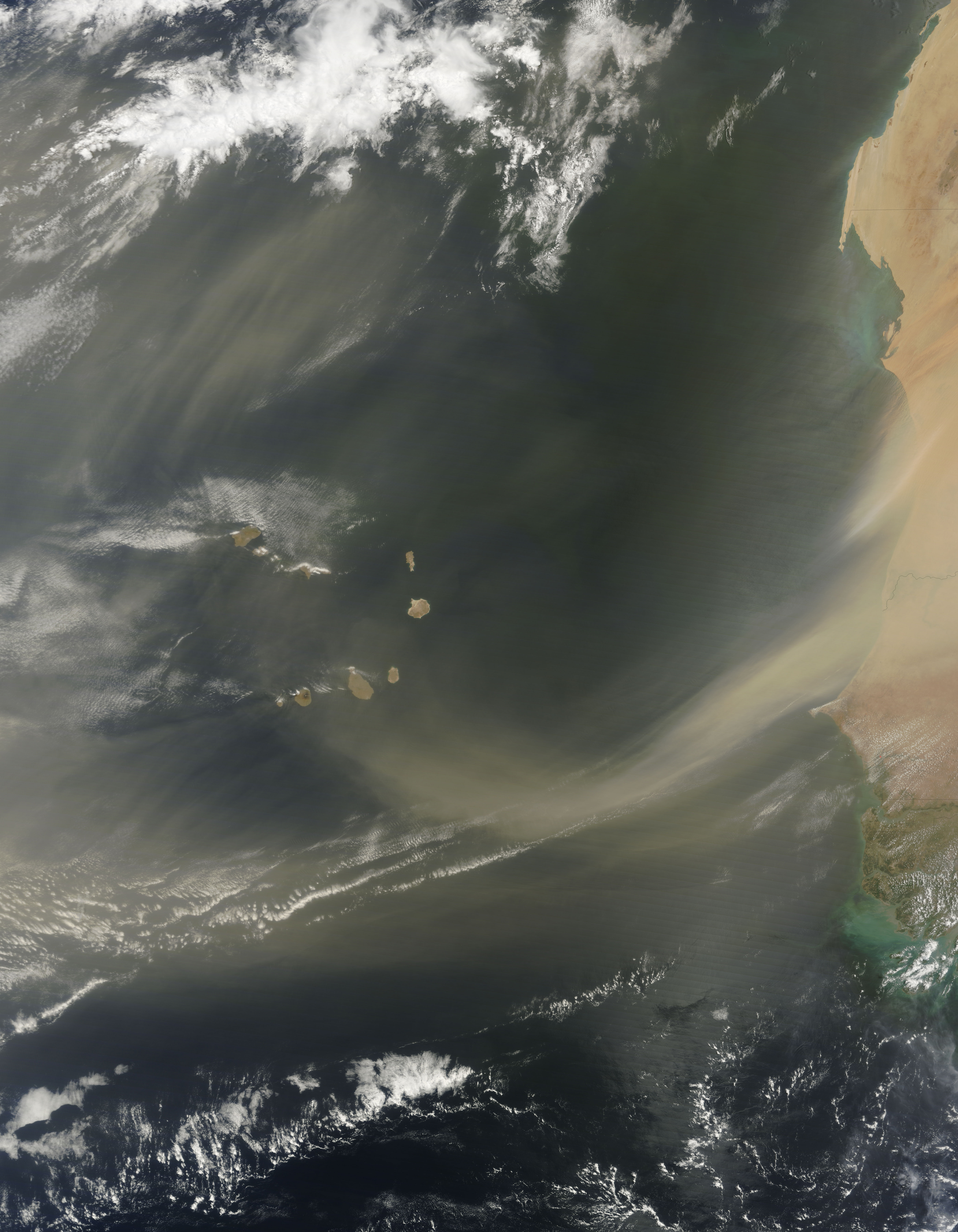 Saharan sand blowing off the coasts of Mauritania and Senegal. Two dust plumes blow toward the south west, one plume stretching possibly 150 kilometres off the coast, and the other plume forming an arc that reaches all the way to Cape Verde. Thinner but larger plumes of dust hover over the Atlantic west and north of the island archipelago. Although this image shows dust immediately off the coast of West Africa, a layer of dust from storms such as this often travels virtually intact to the other side of the Atlantic. This layer of dry, hot, dusty air is called the Saharan Air Layer.